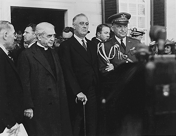 Franklin D. Roosevelt and Pa Watson in Mount Vernon, Virginia